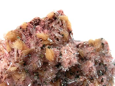 Manganaxinite, Rhodonite Locality: Pachapaqui District, Bolognesi Province, Ancash Department, Peru (Locality at ) Size: miniature, 4.8 x 3.6 x 2 cm Manganaxinite on Rhodonite Rare, sharp crystals of the axinite group species manganaxinite to 4mm , perched on minutely crystallized rhodonite with quartz. Beautiful combination piece.